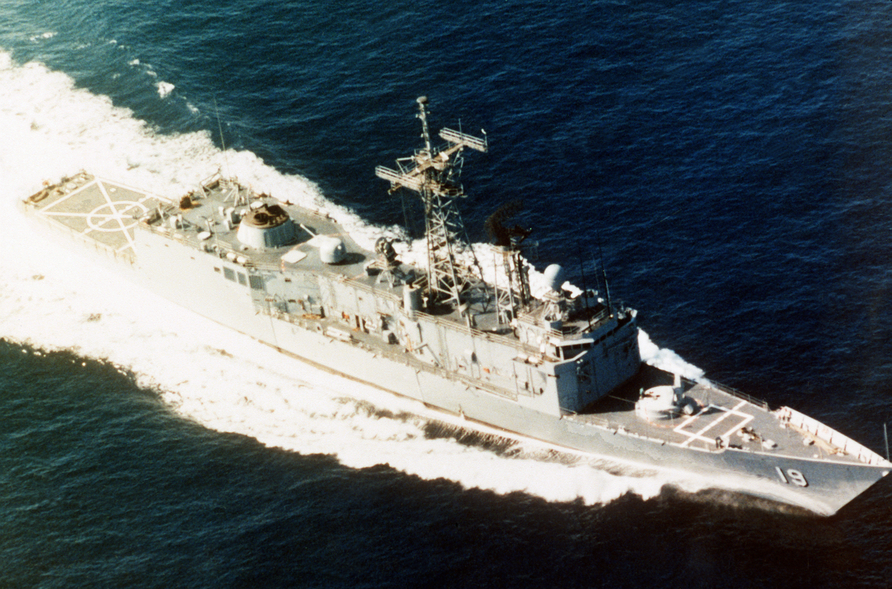 An aerial starboard bow view of the guided missile frigate USS JOHN A. MOORE (FFG-19) underway during sea trials.